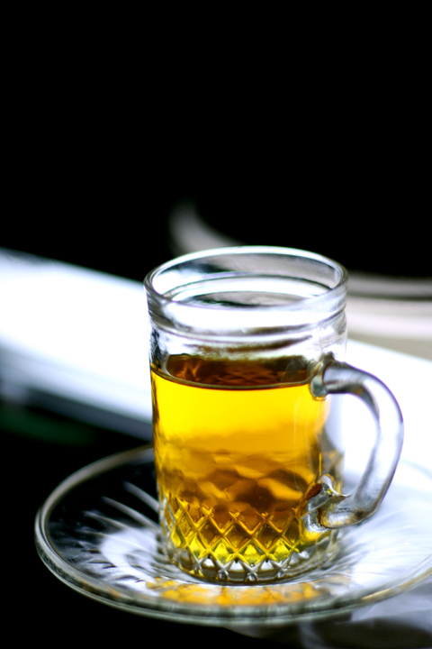 I'm a Cinnamon tea addicted ! I like how it is tasted , smelled and the goldish colour the cinnamon tea has .